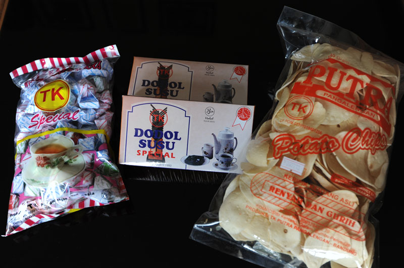 Kerupuk susu (right), which is kerupuk (Indonesian cracker) that contains milk. In middle and left is dodol susu (dodol which contains milk) and possibly permen susu (milk candy)